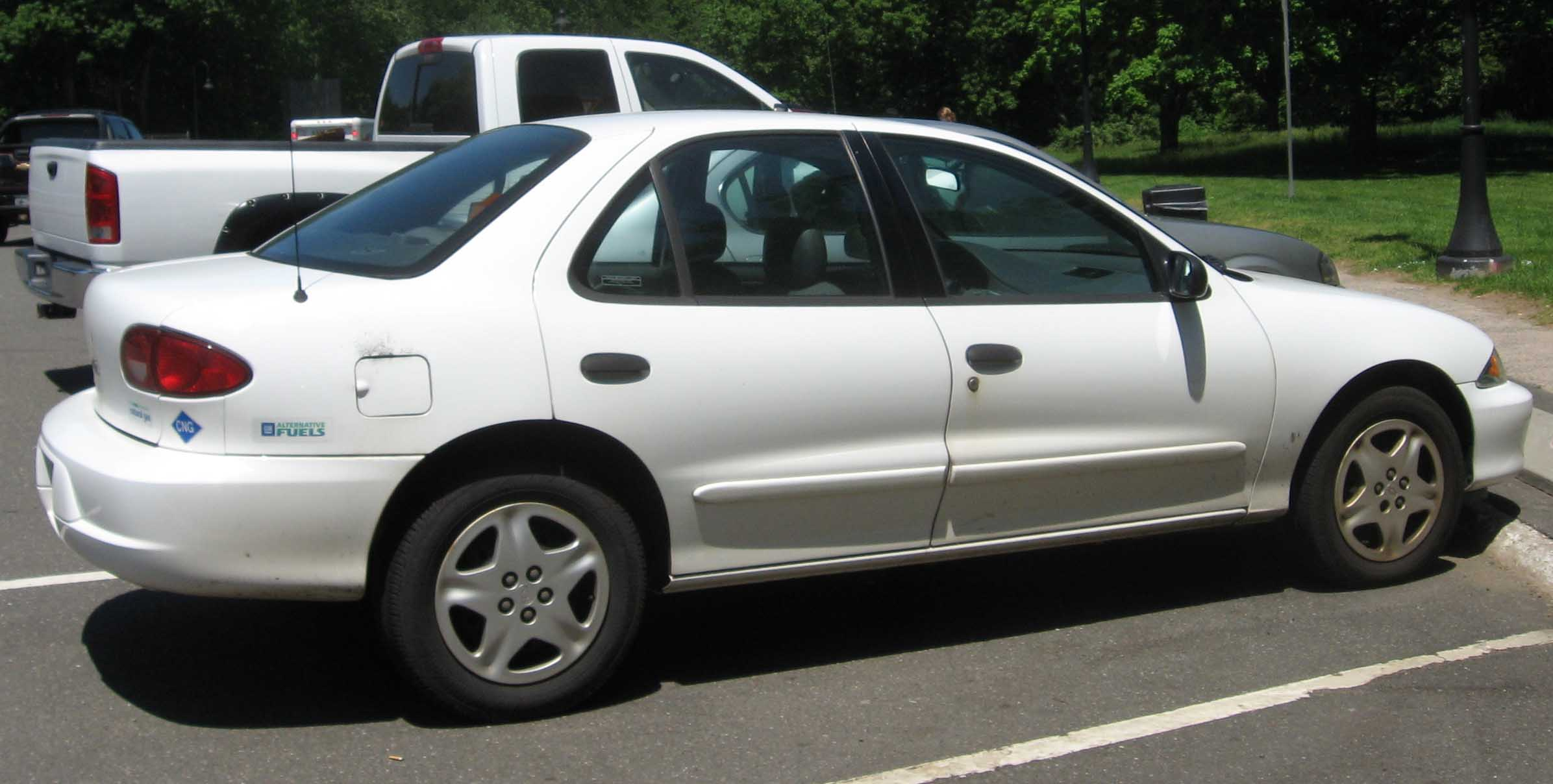 Chevrolet Cavalier CNG photographed in Connecticut, USA.